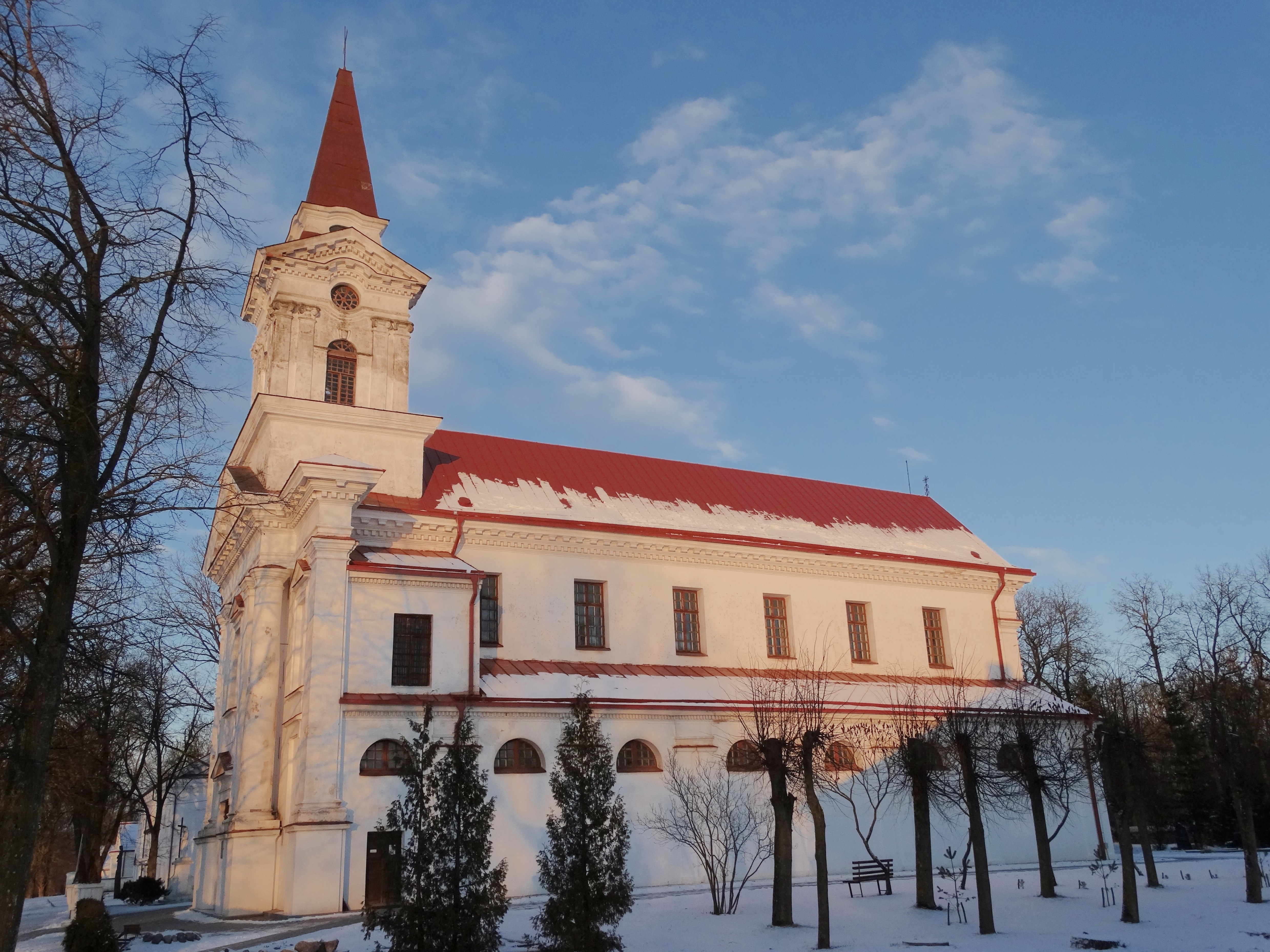 St. Trinity Catholic Church, Joniškėlis, Lithuania